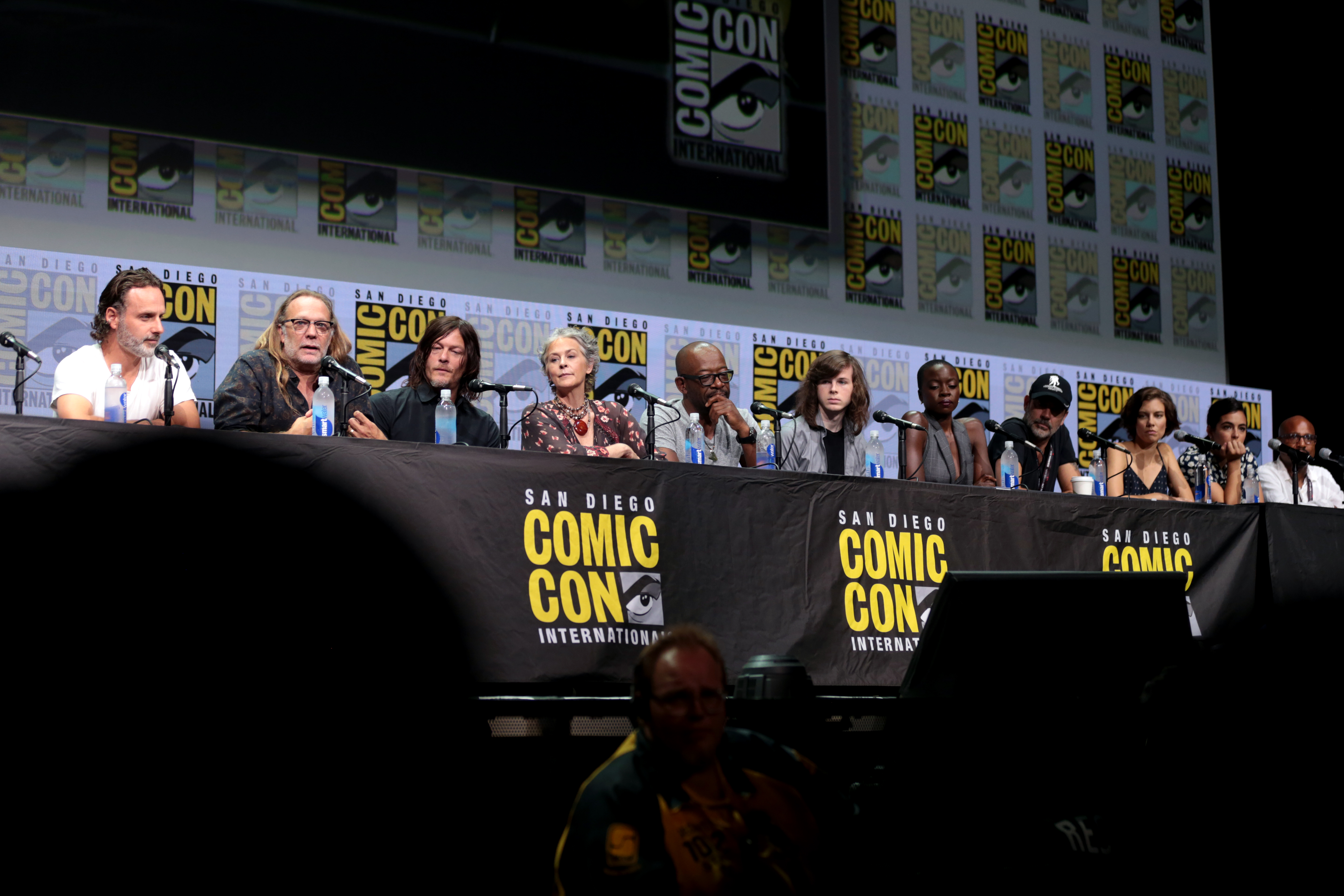 Andrew Lincoln, Greg Nicotero, Norman Reedus, Melissa McBride, Lennie James, Chandler Riggs, Jeffrey Dean Morgan, Lauren Cohan, Alanna Masterson and Seth Gilliam speaking at the 2017 San Diego Comic Con International, for "The Walking Dead", at the San Diego Convention Center in San Diego, California.